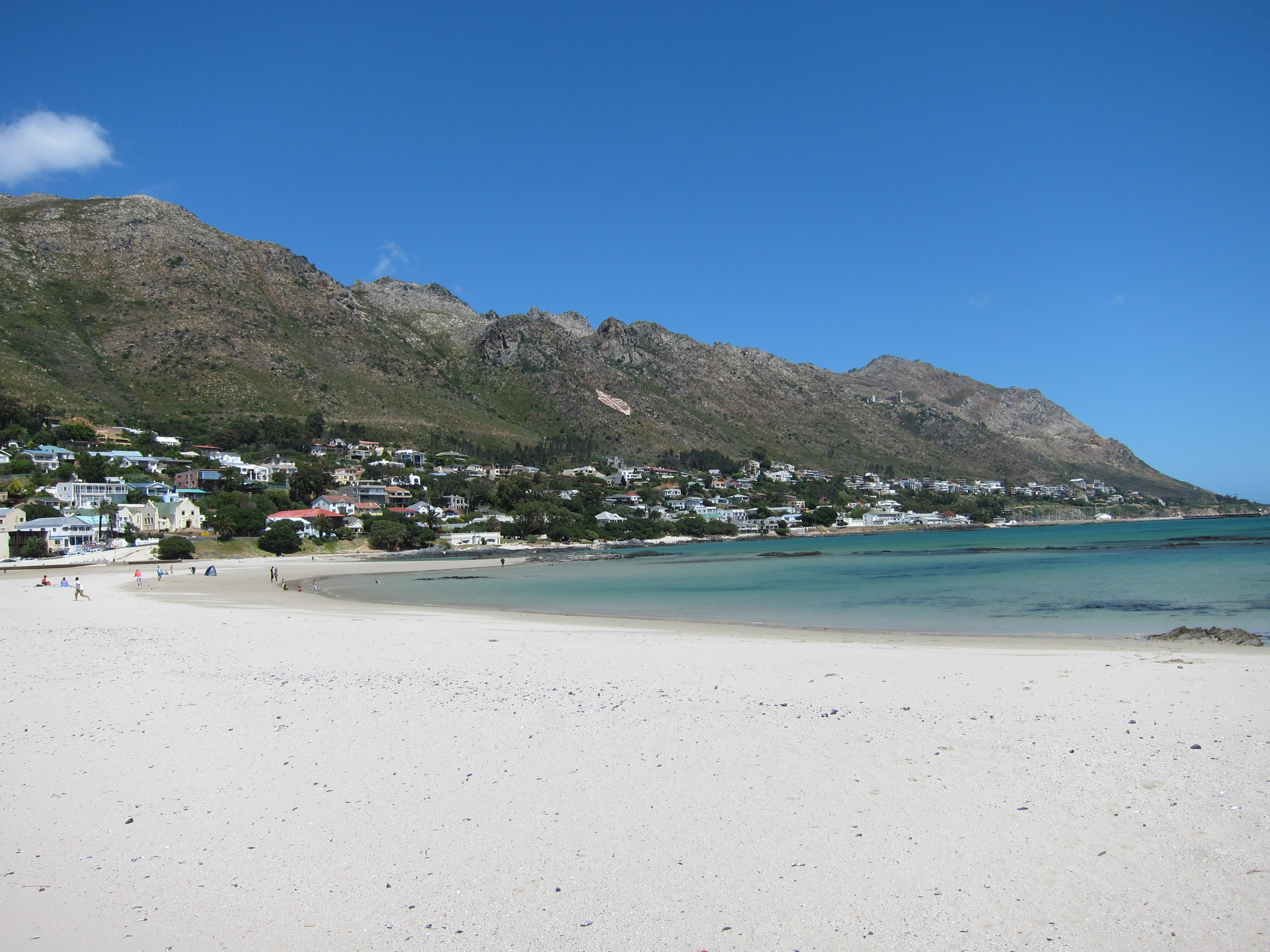 Cape Town, South Africa, Gordon's Bay